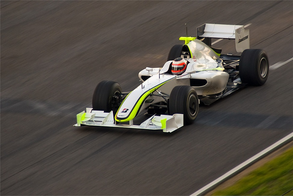 Barrichello at pre-season testing 1/320s - F/8 - 200mm - ISO200